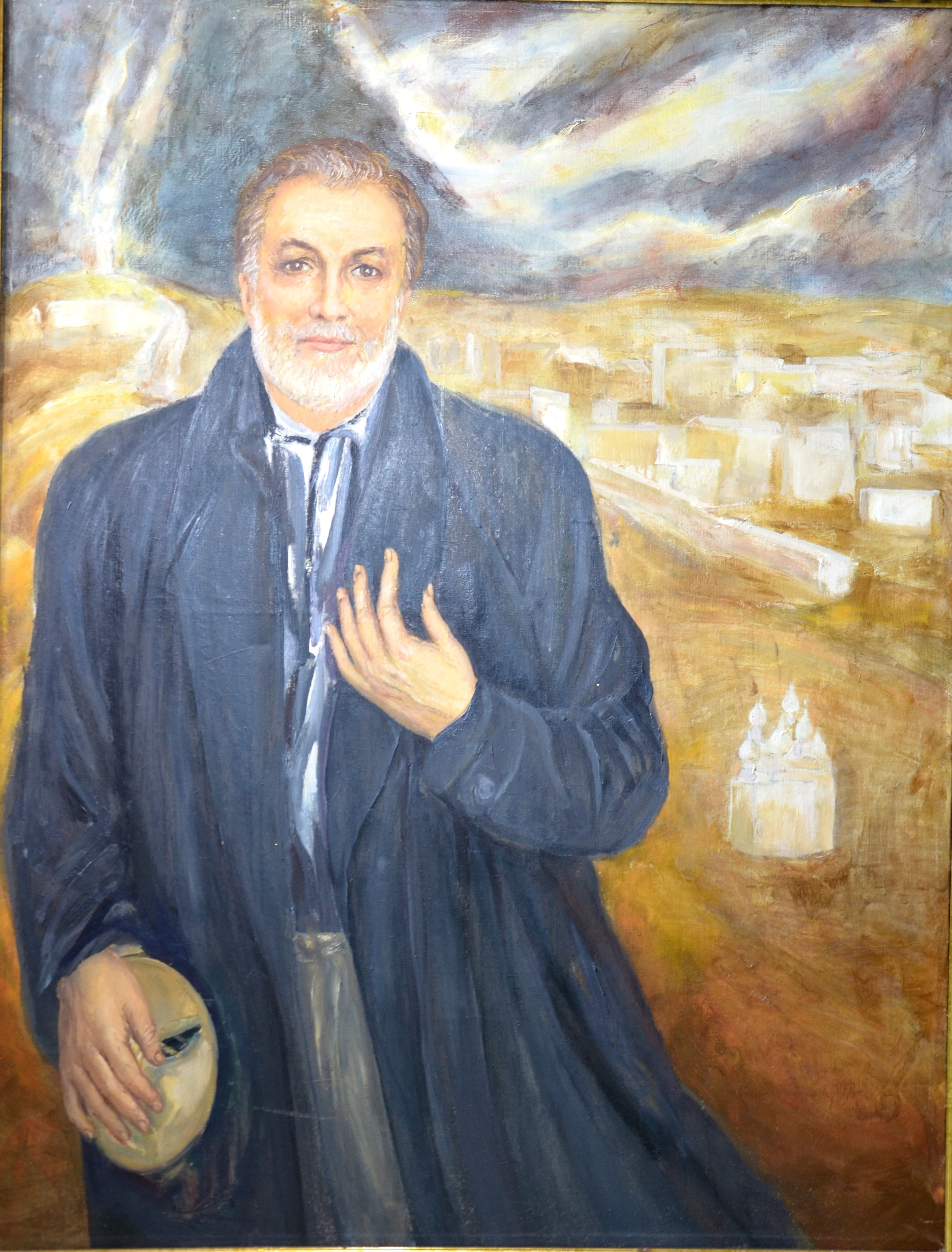 Alexey Kuzmich, Portrait of national actor Boris Lutsenko, 2001